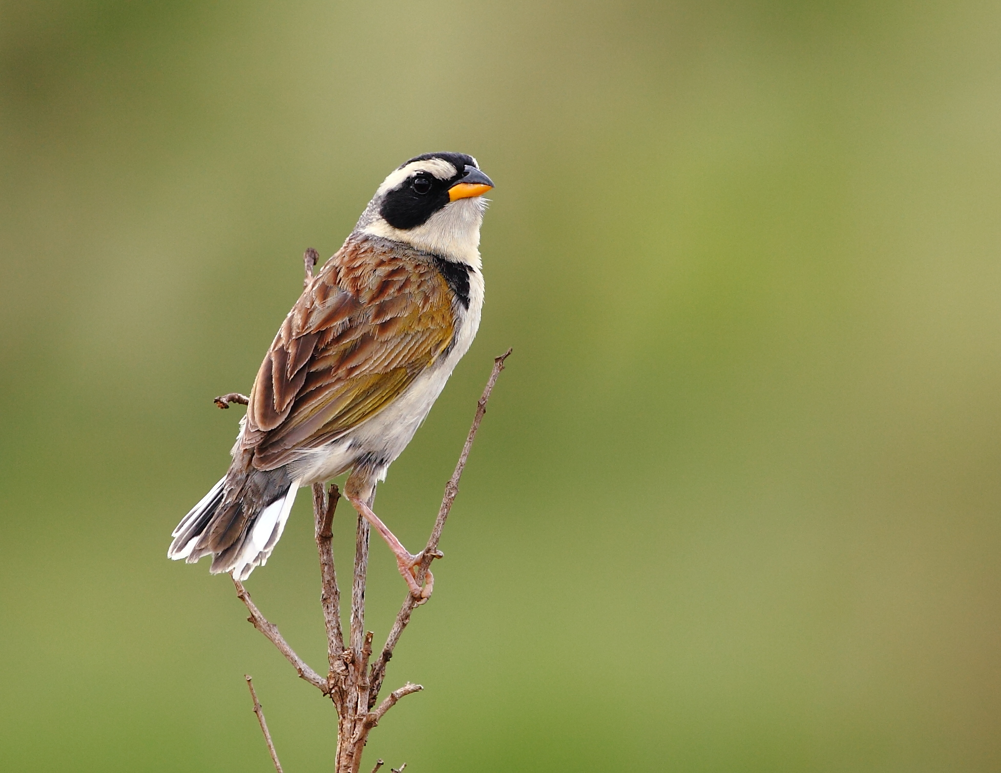 Black-masked Finch; Serra da Canastra National Park, Minas Gerais, Brazil